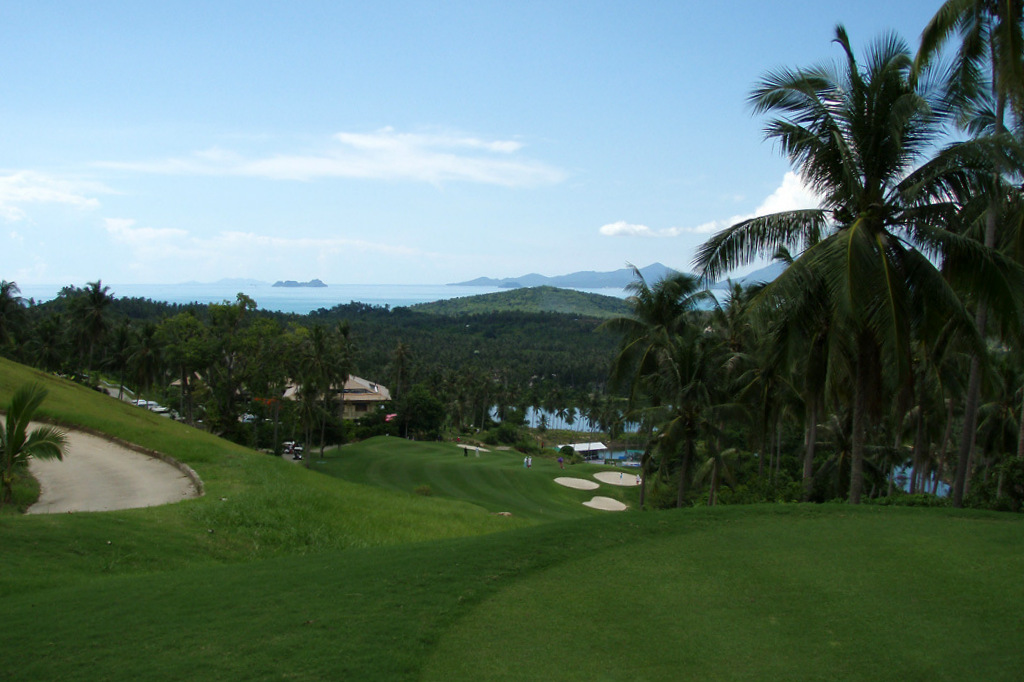 View over Maenam Bay from tee18 at Santiburi Country Club, Koh Samui, Thailand